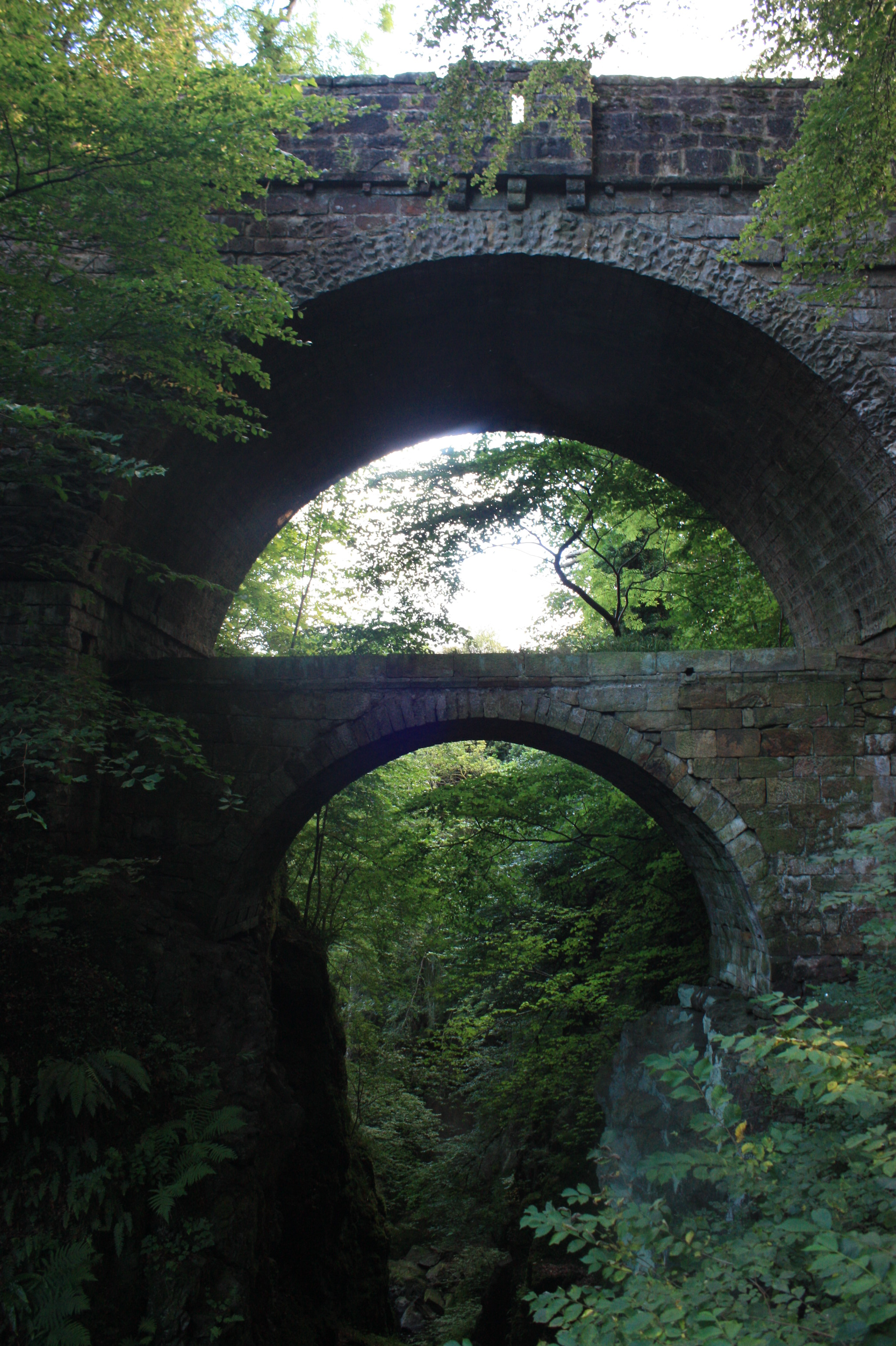 Rumbling Bridge, the double bridge which gives its name to the village